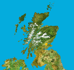 Perth's location in Scotland